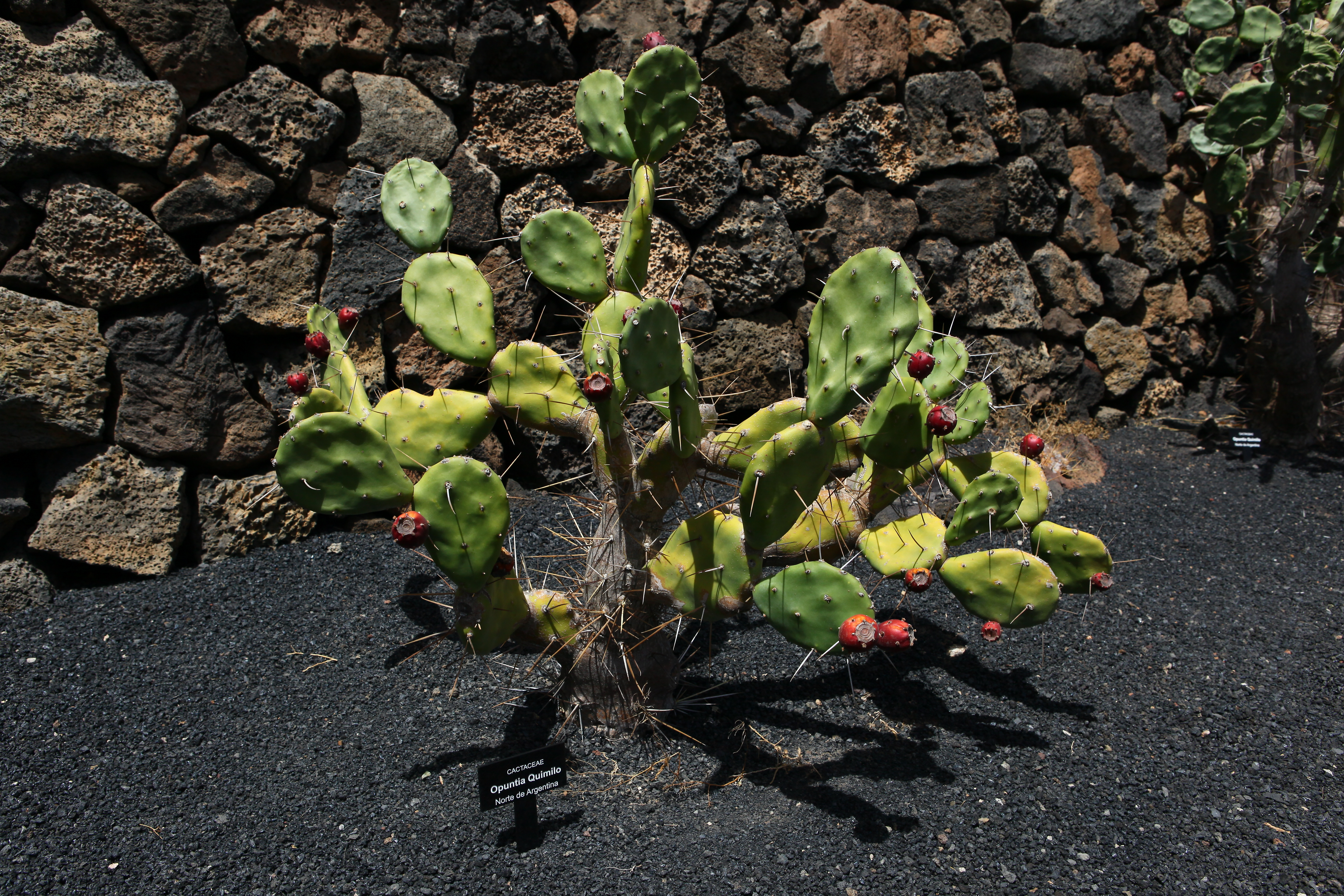 Opuntia quimilo in the garden: "Jardín de cactus" creation de Manrique, in Guatiza, Lanzarote.